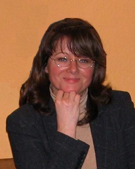 Prof.-Dr Mechthild Roth